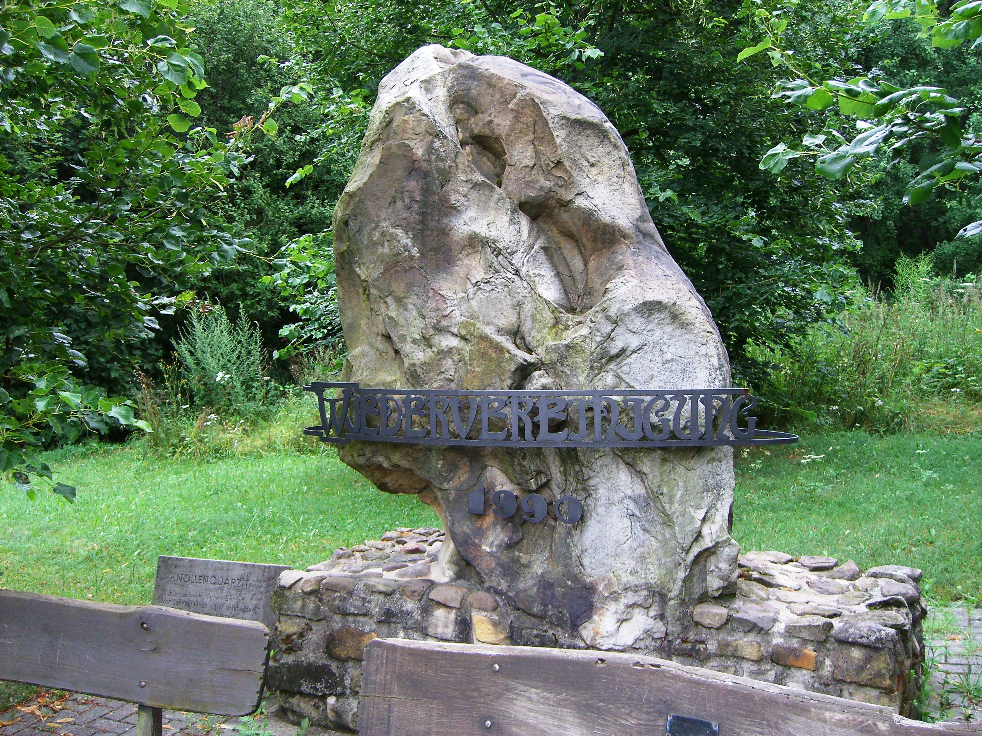 memorial stone of the German reunification in Beendorf